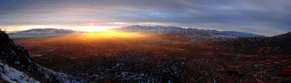 Taken from the mountains above Alpine, looking over northern Utah Valley.